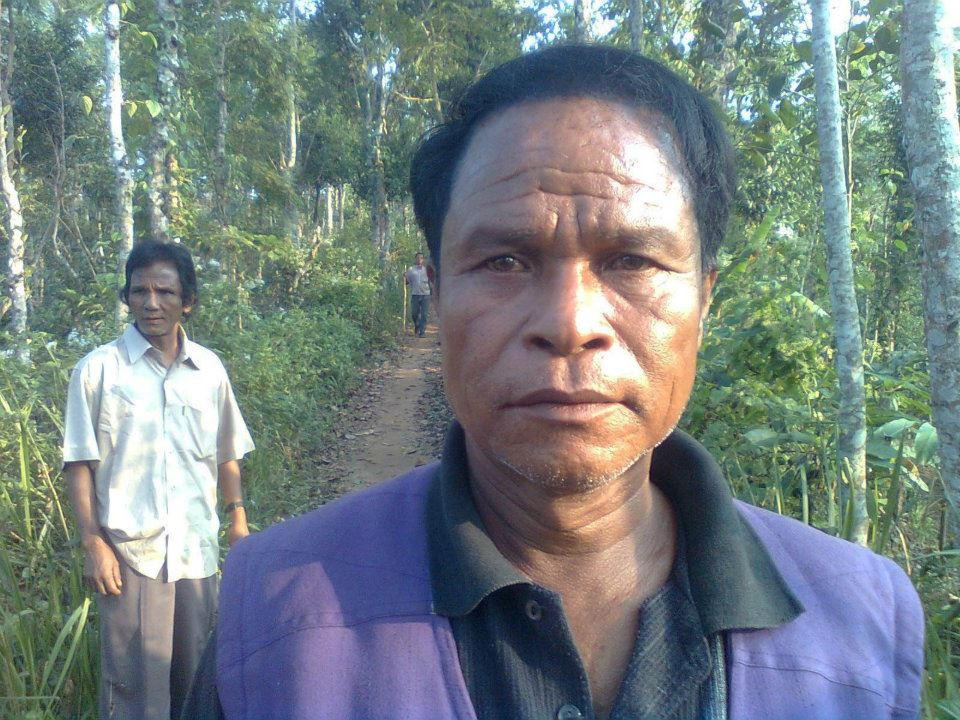 Khasia Man-00, Khasia Hill, Srimongol, Moulvibazar, Bangladesh